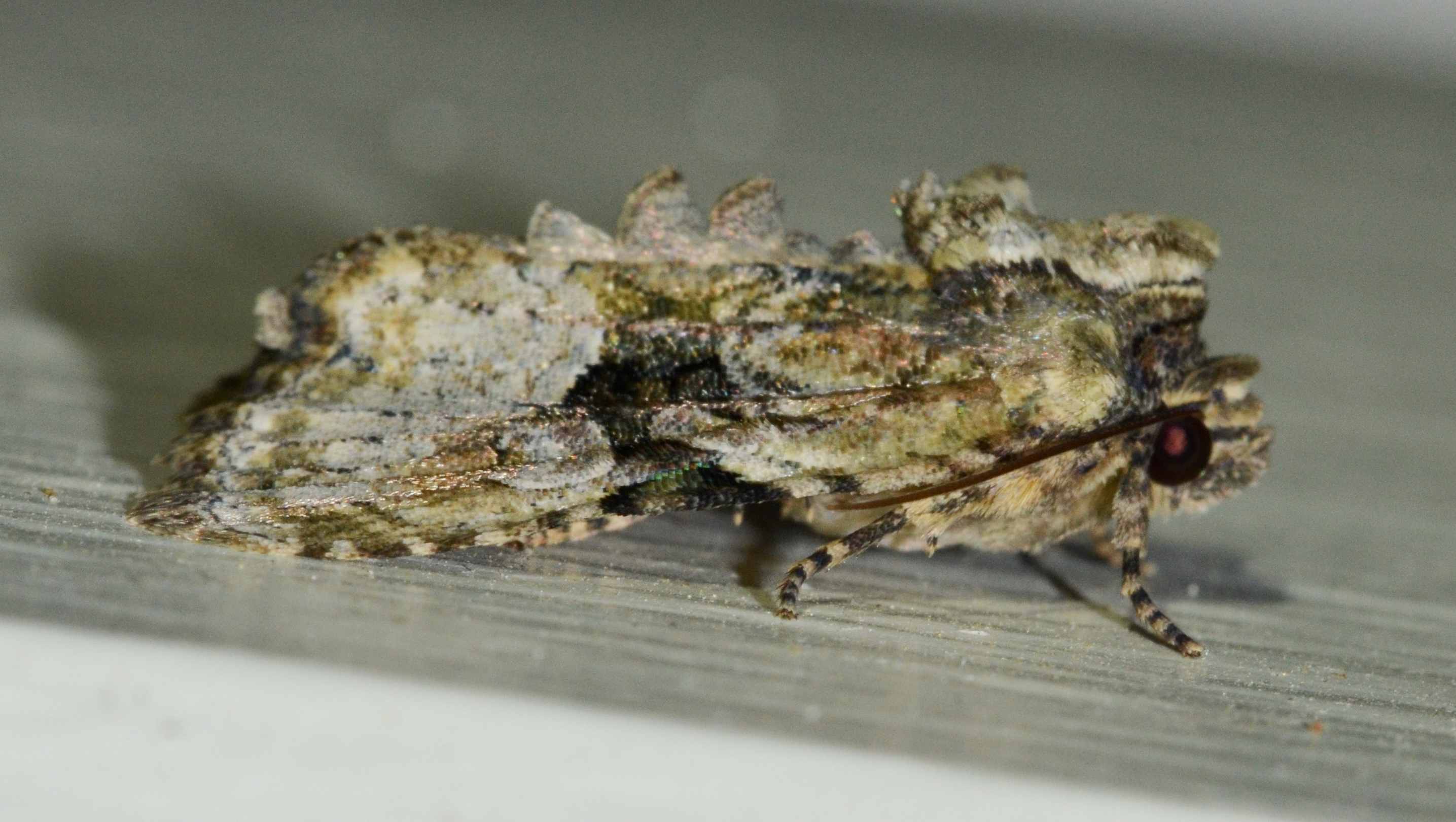 National Moth Week Event at Shaw Nature Reserve July 5, 2014